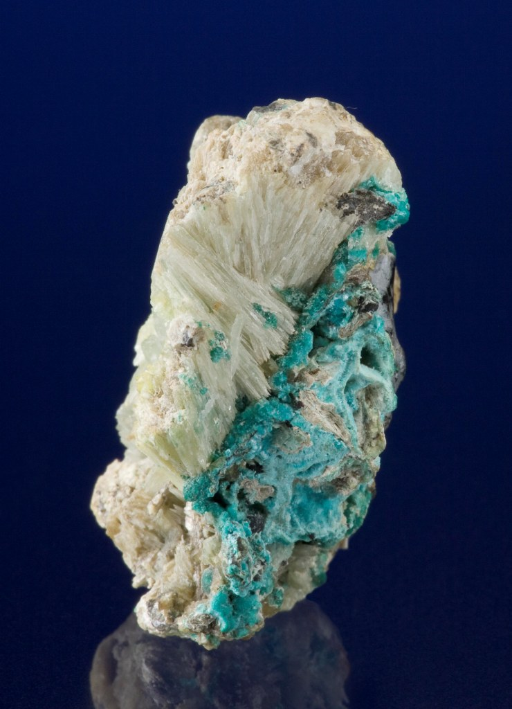 Lanarkite, Susannite, Macphersonite Locality: Susanna Mine (Glennery Scar Vein; Susanna Vein (Scar Vein); Portobello Vein; Humby Vein; Lead Vein), Leadhills, South Lanarkshire, Strathclyde (Lanarkshire), Scotland, UK (Locality at ) Size: 4 x 3 x 2 cm This specimen is absolutely superb for several reasons: its richness, history, and crystal size among them. It is a large cluster of already remarkable lanarkite crystals from the type locality. The lanarkites are draped with a druse of susannite crystals (also type locality) to 3mm - considered extremely rich overall. A small yellow macphersonite crystal is attached at the front (looks like a little yellow wulfenite, center-middle in photo). This specimen is a major classic rarity of the mid to late 1800s, seldom seen in this quality even in the most major Museum collections. The piece was exchanged out of the collection of France's National Museum of Natural History and made its way into the Lindsay and Patricia Greenbank collection (of English and Scottish minerals) by the 1990s. It was bequeathed to the museum in about 1900 as dated by the antique museum accession label in the handwriting of Professor Alfred Lacroix. It had been in the noted collection of Charles Frossard, a noted French collector living in the Pyrenees, by the end of the 1800s. Joe Budd photos.